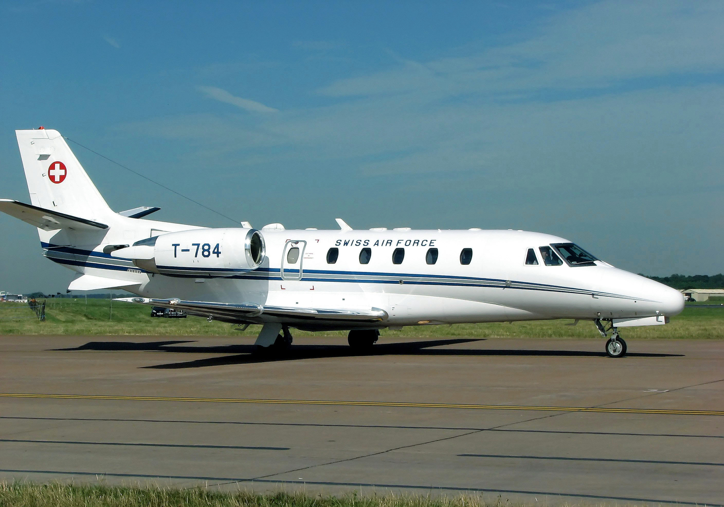 Cessna 560XL Citation Excel of the Swiss Air Force (identifier T-784), taxiing at the Royal International Air Tattoo, RAF Fairford, Gloucestershire, England.